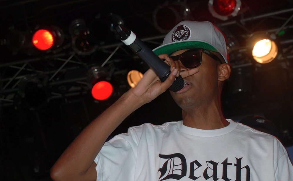 The image is an A3C concert photo of rapper, SL Jones